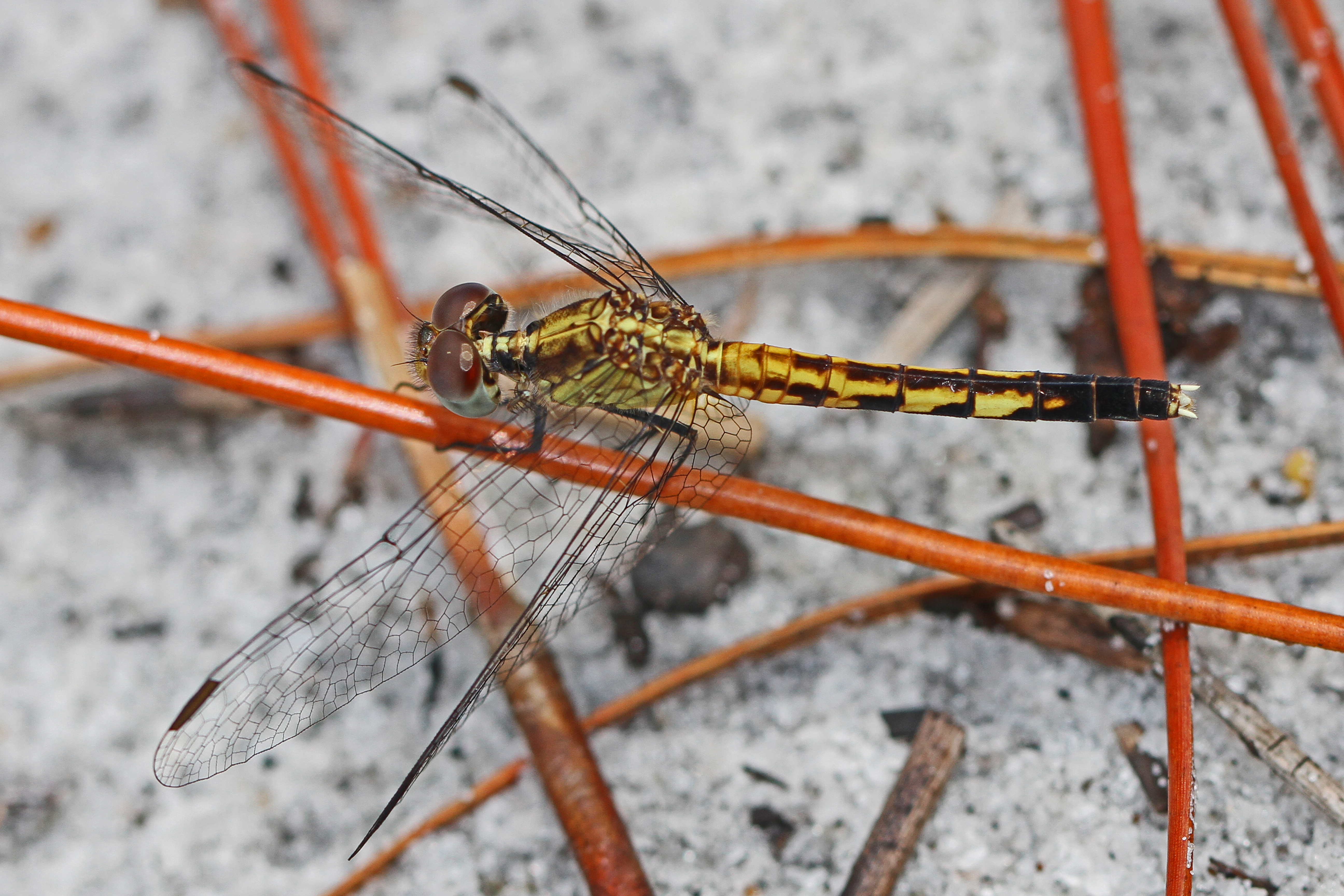 Little Blue Dragonlet (female) - Erythrodiplax minuscula, Okeefenokee National Wildlife Refuge, Folkston, Georgia